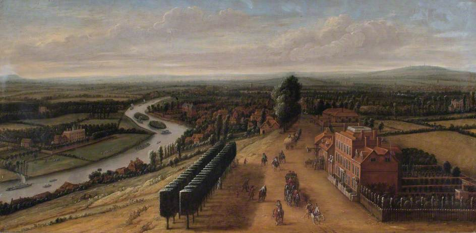 Knyff, Leonard; The Terrace and View from Richmond Hill, Surrey; Richmond upon Thames Borough Art Collection, Museum of Richmond (London)